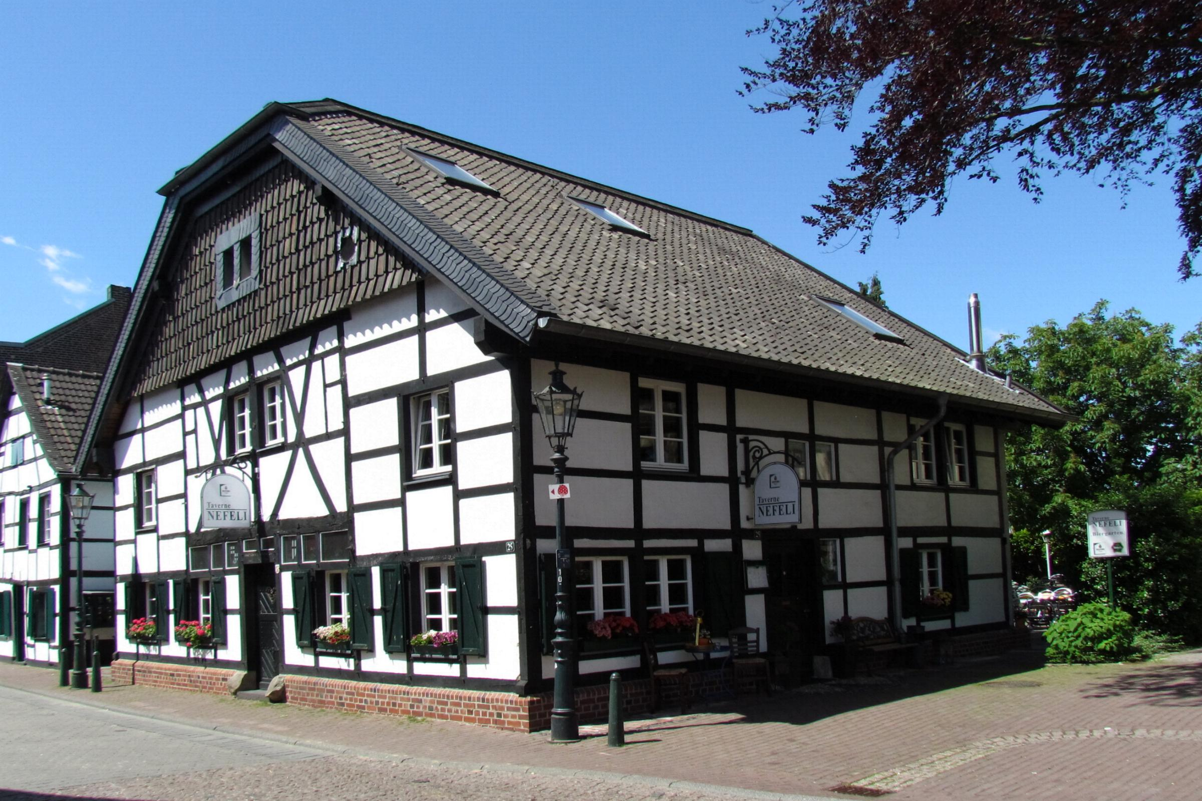 This is a photograph of an architectural monument.It is on the list of cultural monuments of Korschenbroich